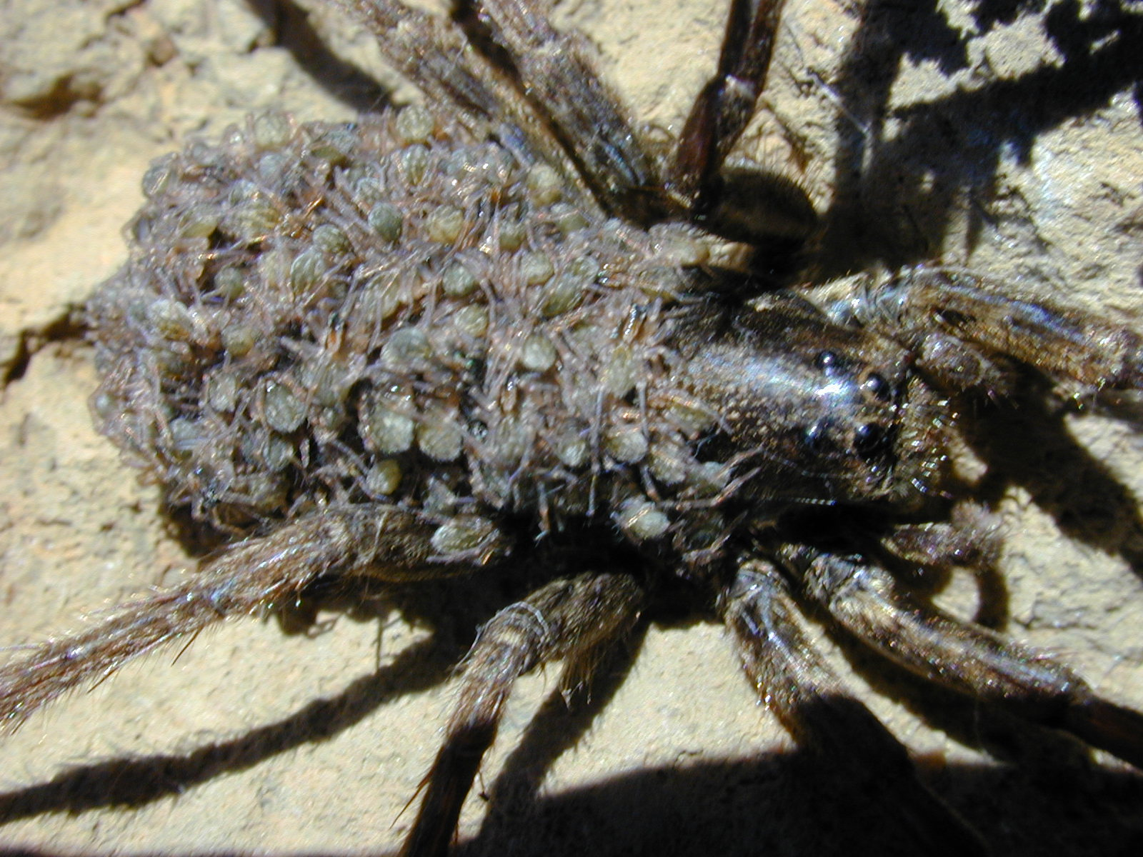 (Lycosa hawaiiensis with babies on back). Location: Maui, Kalahaku Haleakala National Park